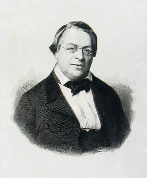 The portrait of composer Heinrich Marschner, engraved by Lazarus Sichling